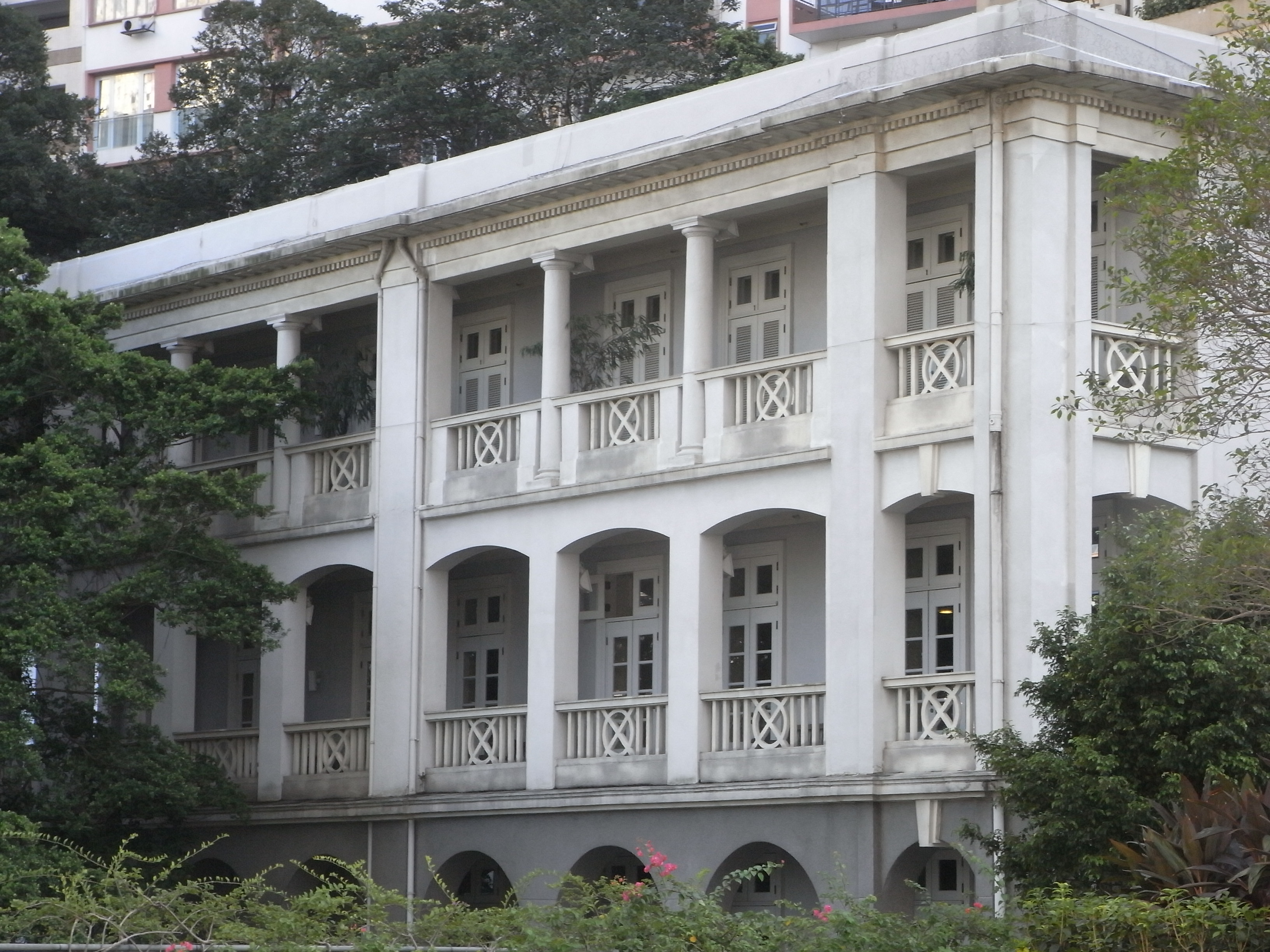 香港島zh:半山區 羅便臣道